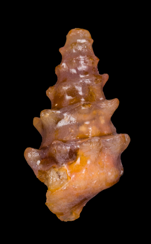 Mogánite Locality: Dakhla-Oued Ed-Dahab Region, Morocco Size: 2.7 x 1.5 x 1.3 cm A sculptural, excellent and rare pseudomorph from this very obscure African locale. The perfectly fossilized spiral Turritella-like snail has been replaced by lustrous, translucent, brown chalcedony and has a coating of white moganite, a very rare SiO2 modification, that is not uncommon as a minor component of finely crystalline chalcedony (as well as chert or flint) (MINDAT)